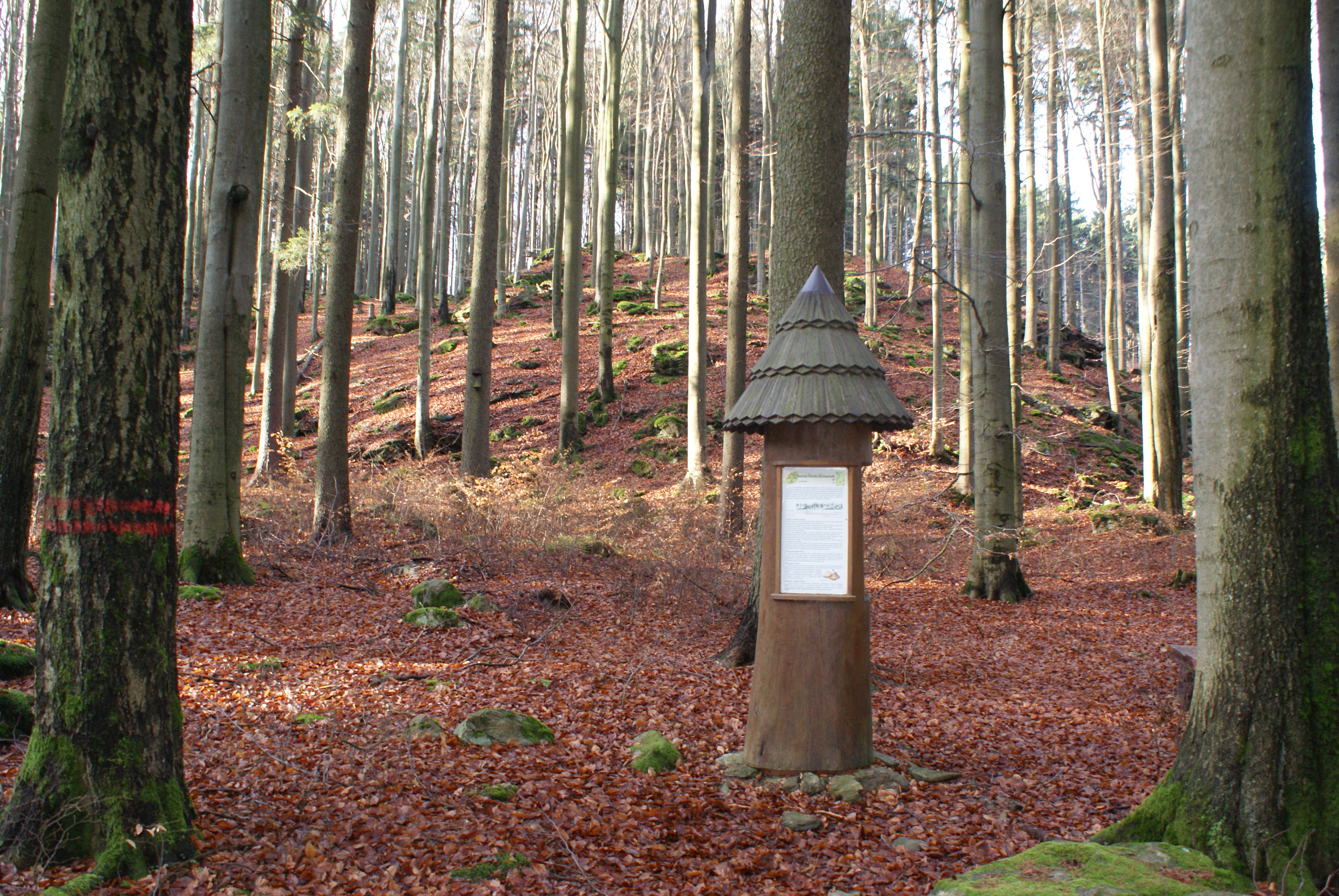 informacni tabule na Kremesniku